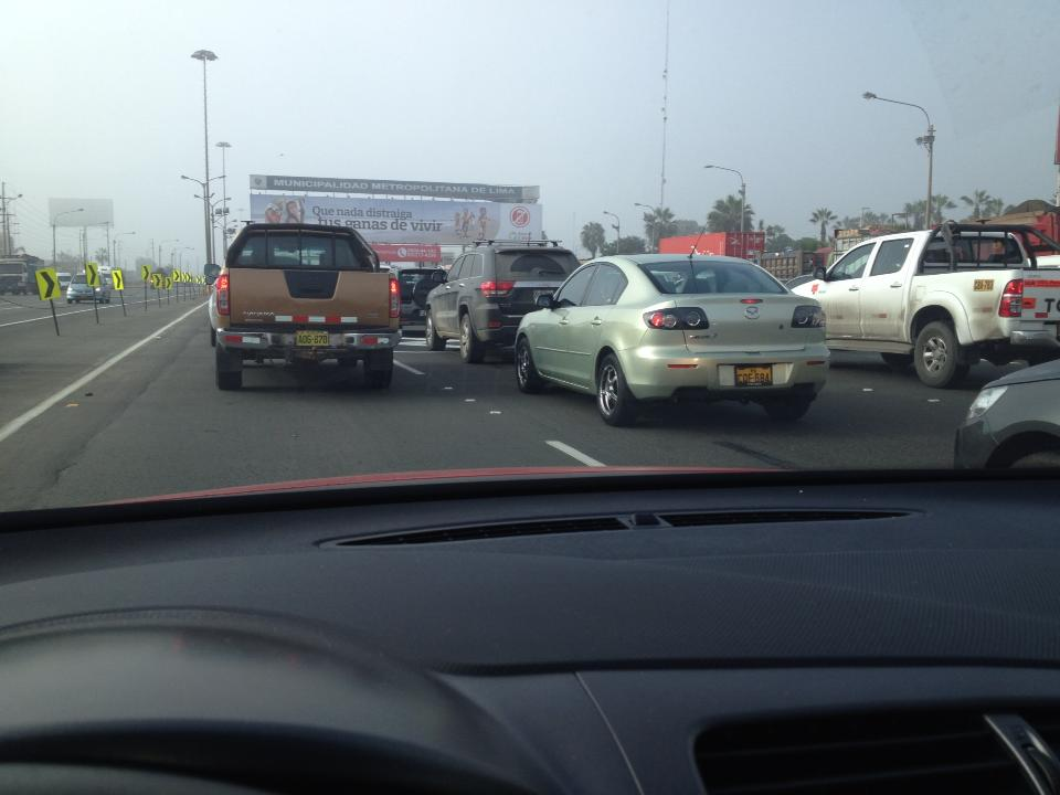 Traffic in Lima.